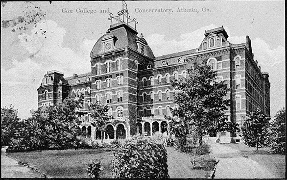 "Cox College and Conservatory. Atlanta, Ga.", though the campus was actually located in College Park, Georgia.